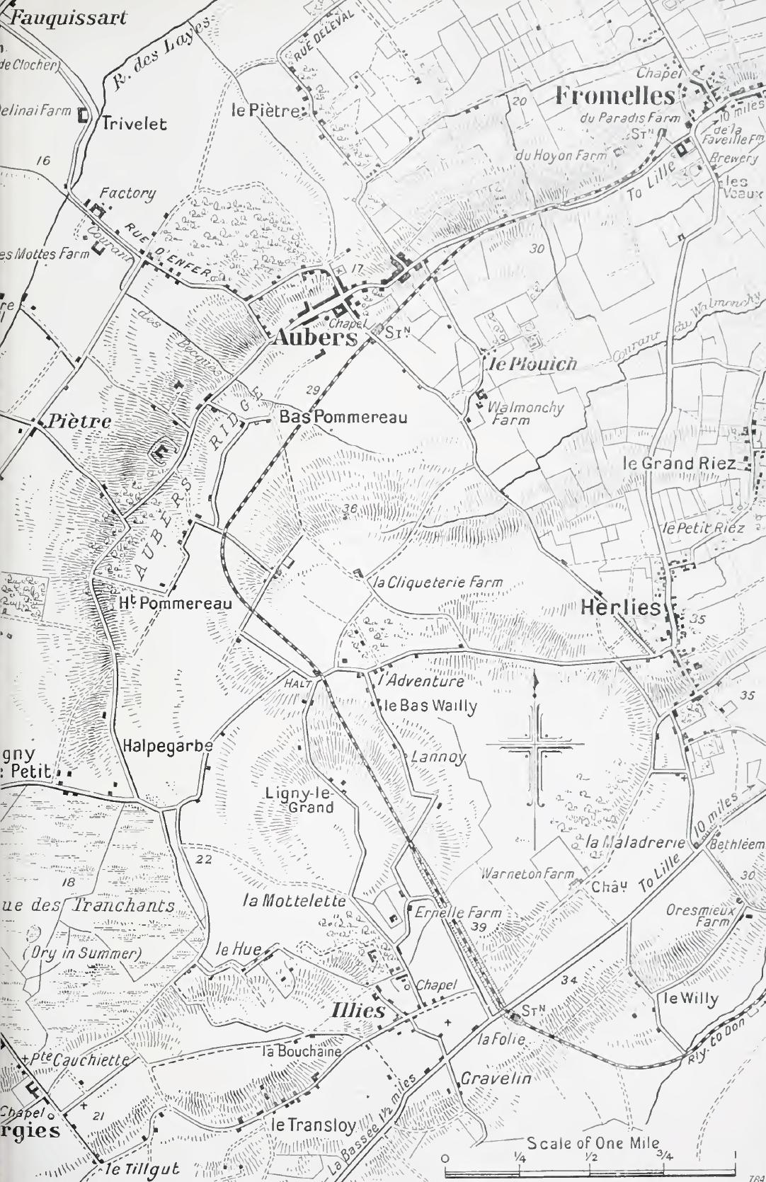 Map Neuve Chapelle, 1915b